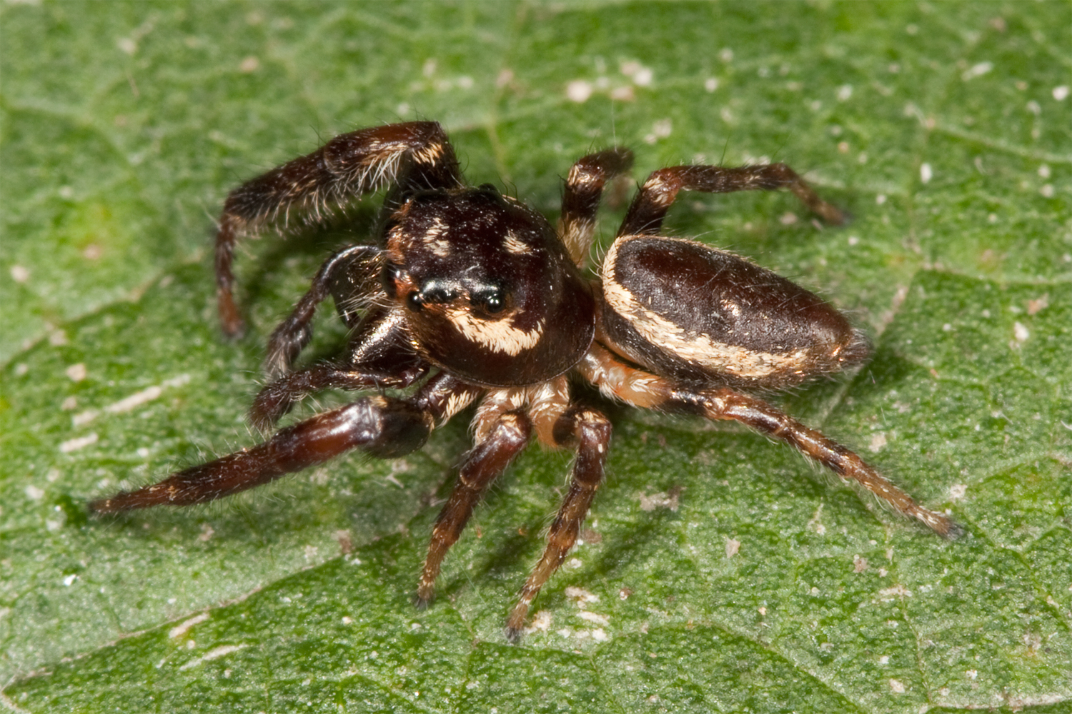 Adult male Bronze Jumper (Eris militaris) at Shelby Park in Nashville, Tennessee (USA)